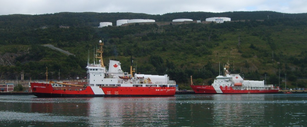 CCGS George. R. Pearkes (left) and the CCGS Leonard J. Cowley (right) in St. John's Harbour, NL, Canada, August 2008.